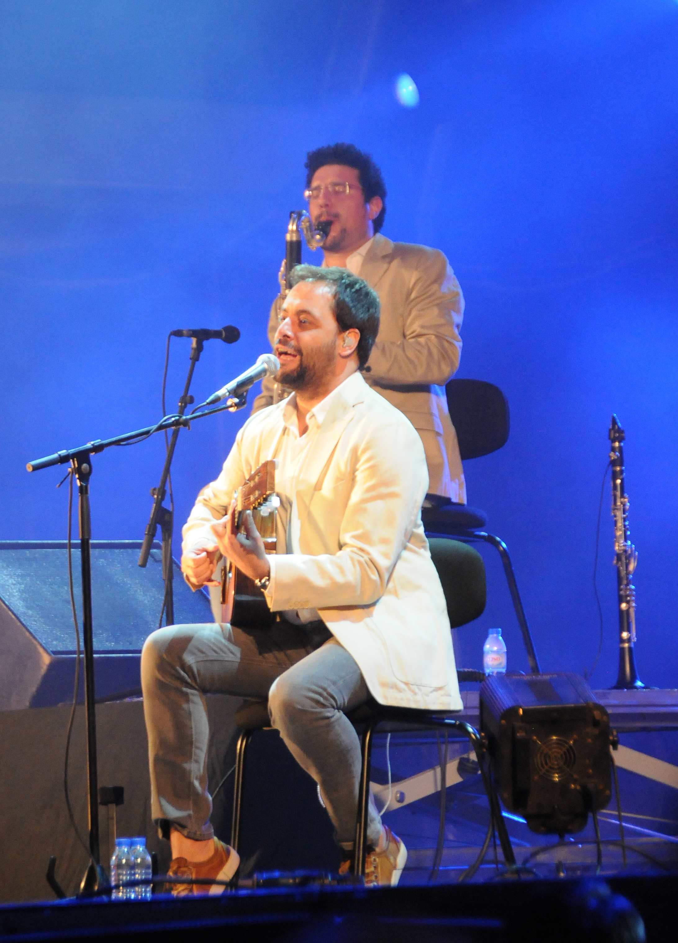 António Zambujo performing at Nuit Blanche Braga 2015.